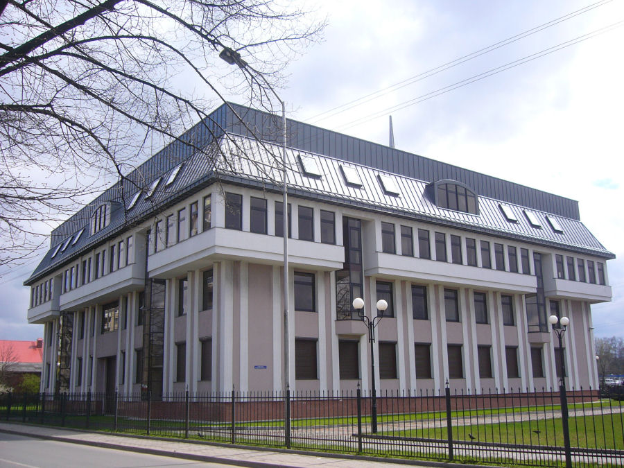 Building of the admininstration of Port of Kaliningrad.